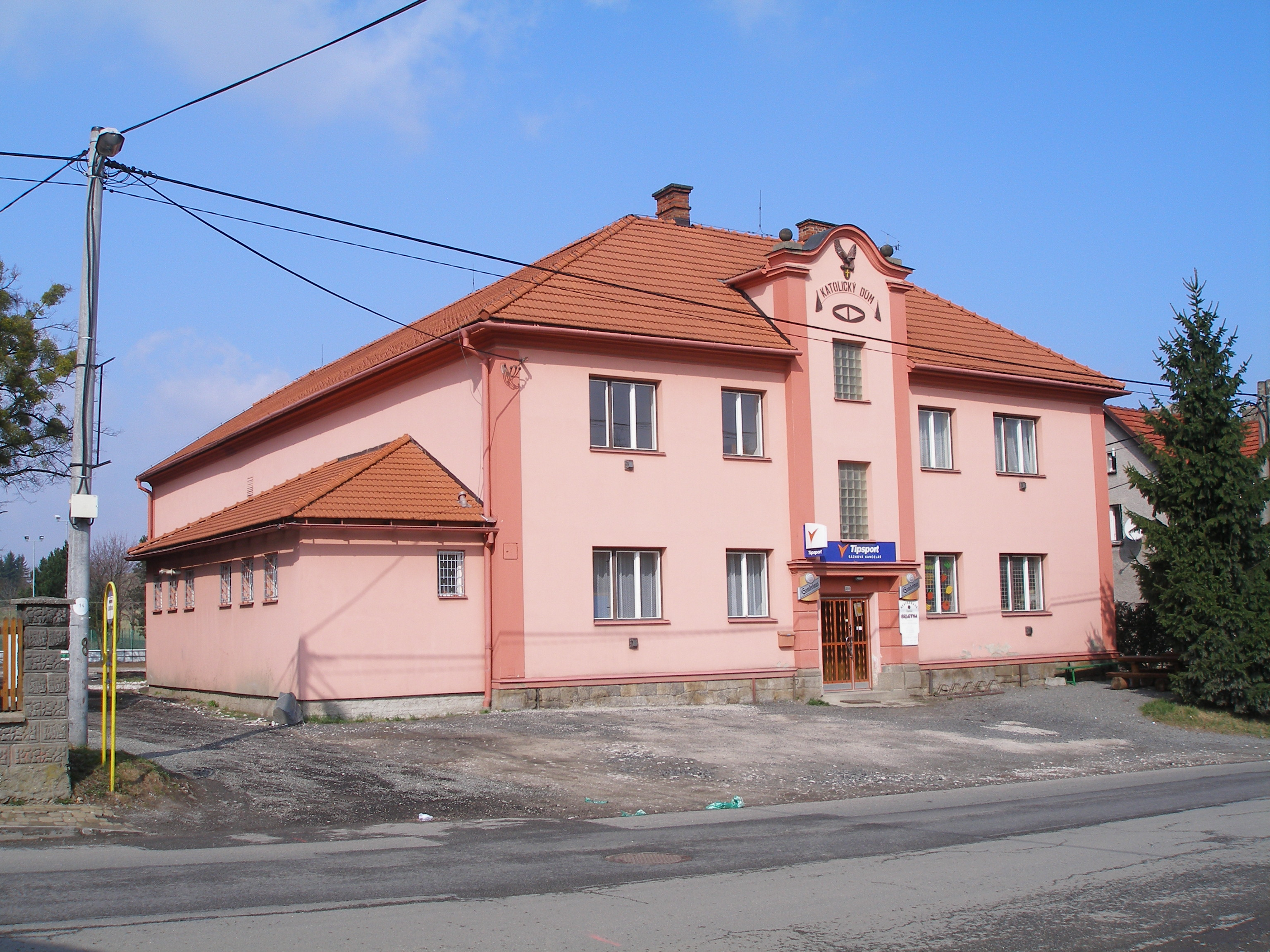 Catholic house in Mořkov.